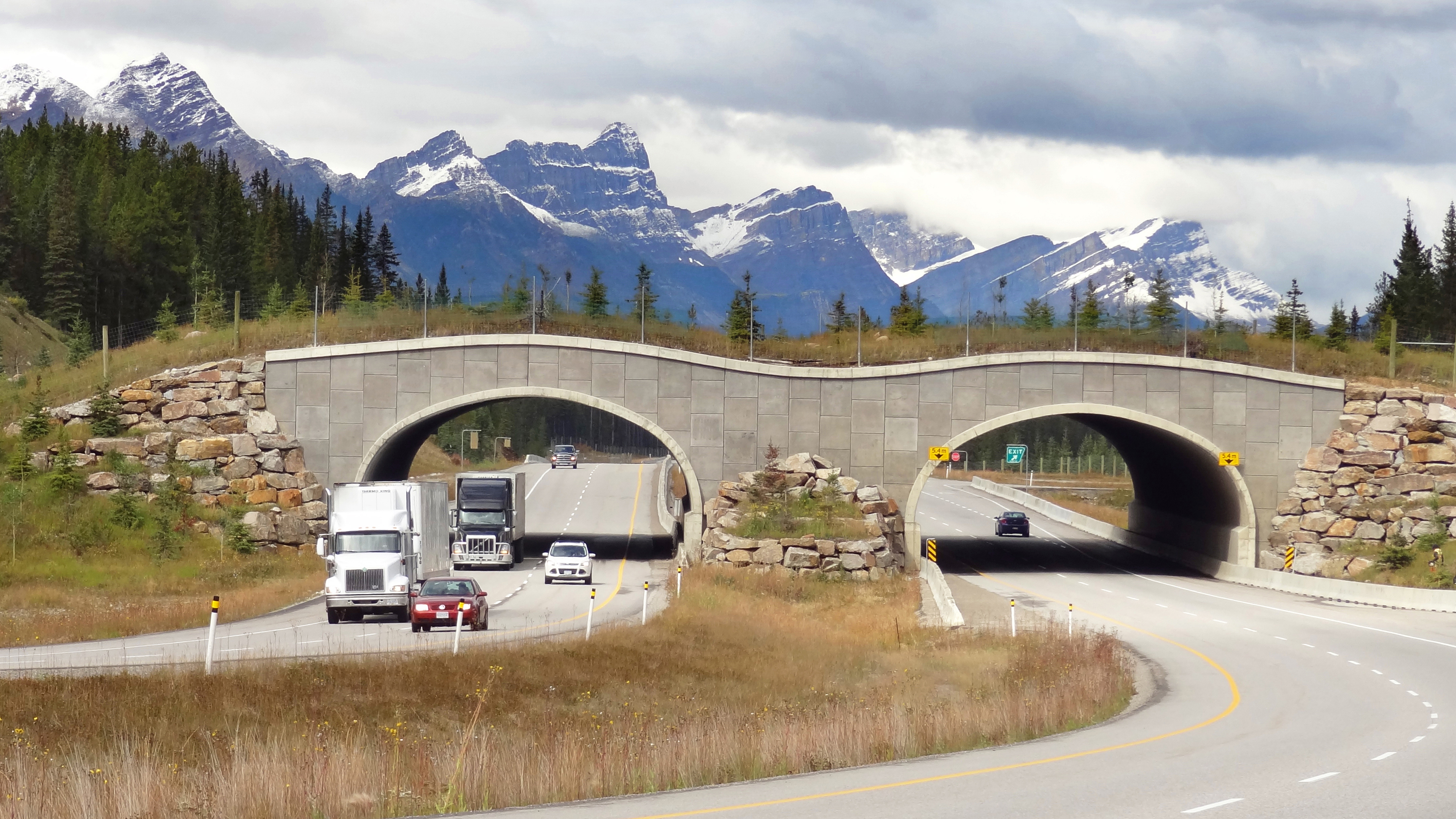 One of several wildlife overpasses on the Trans-Canada Highway between Banff and Lake Louise, Alberta